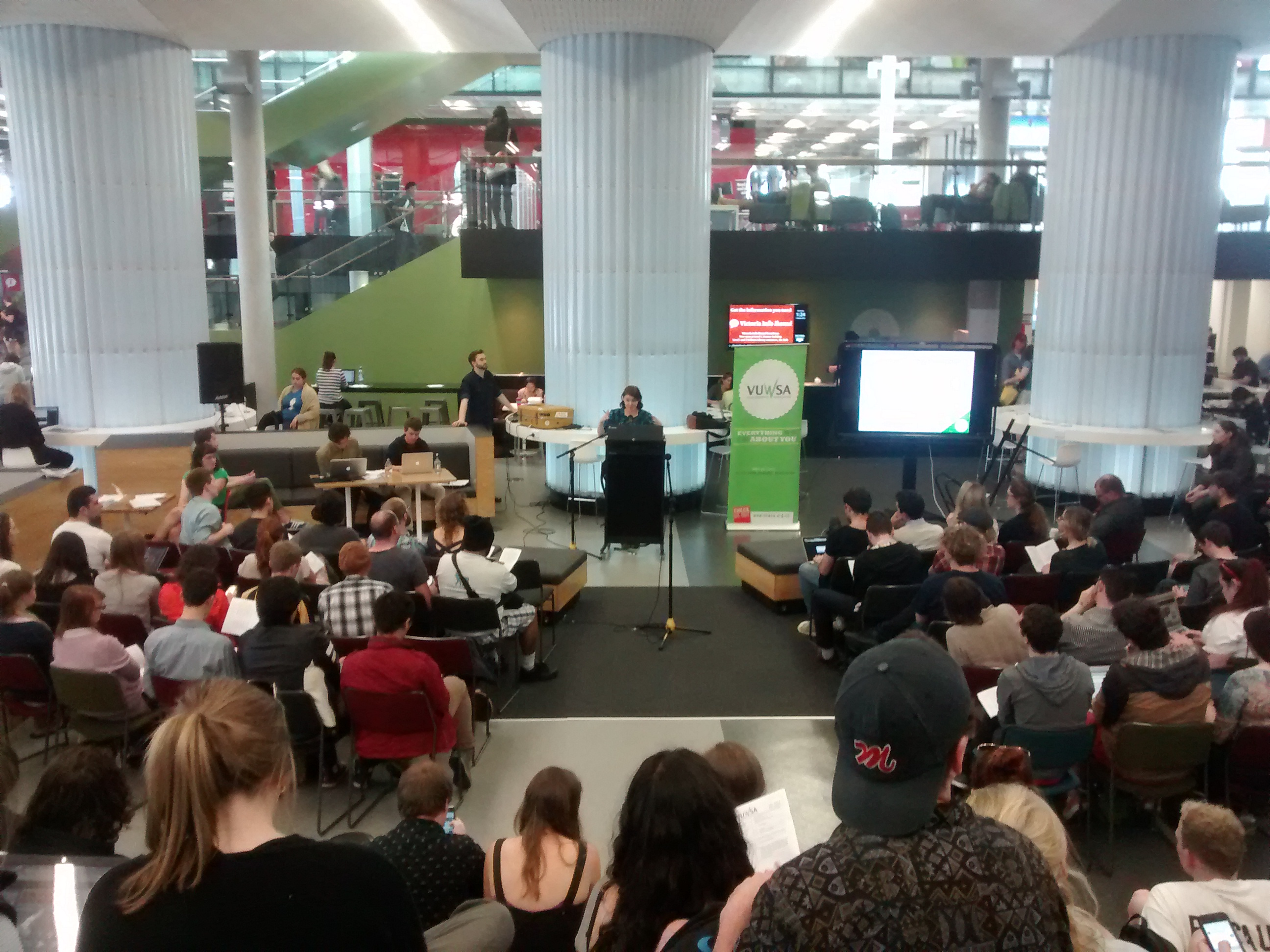 Victoria University Students' Association's (VUWSA) 2014 Annual General Meeting held in the the campus Hub at the Kelburn Campus. Speaking at the podium is President Sonya Clark.